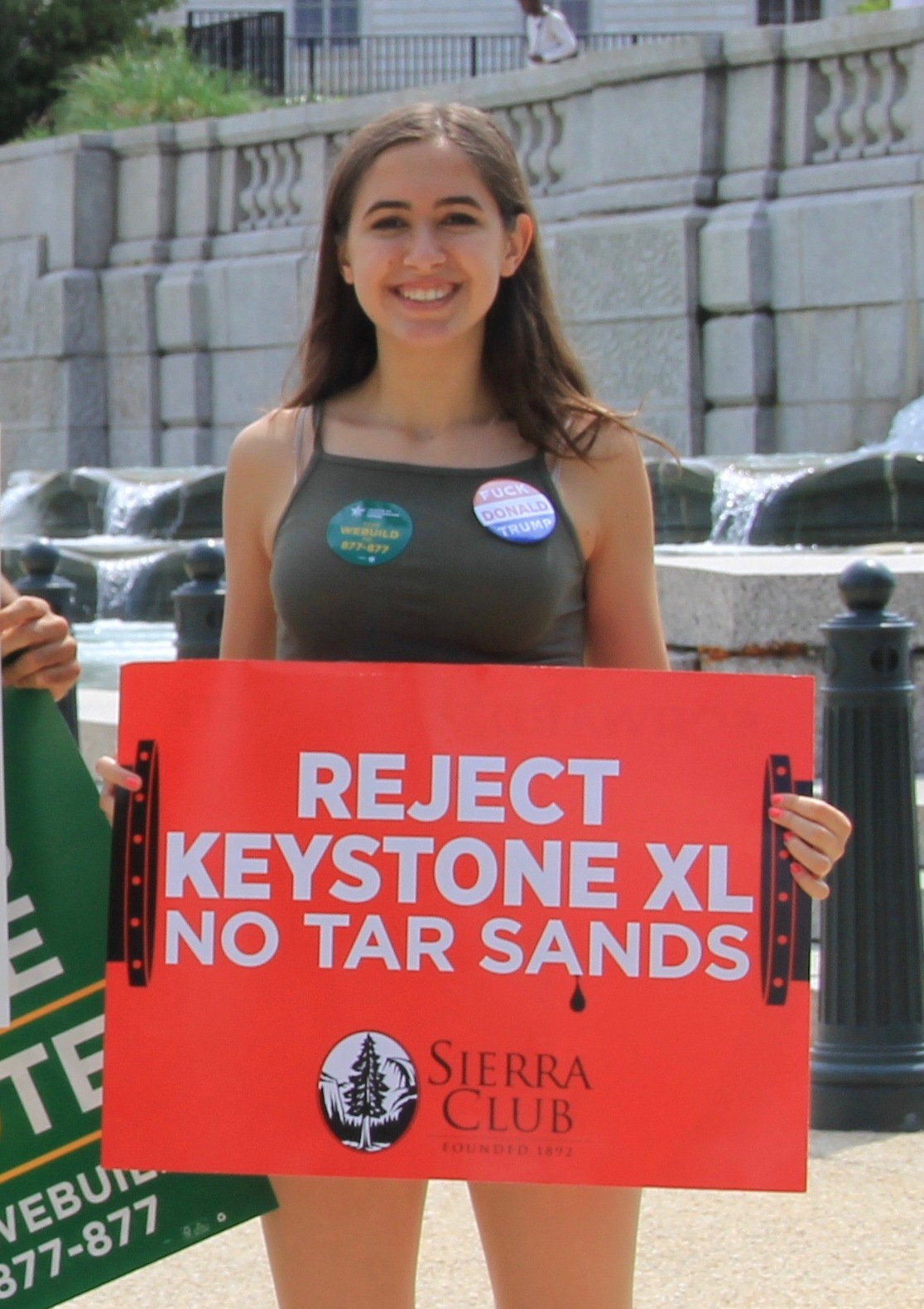 Citizen demonstrating with a placard against the Keystone Pipeline and tar sands, at the People's Climate March 2017 in Washington DC.